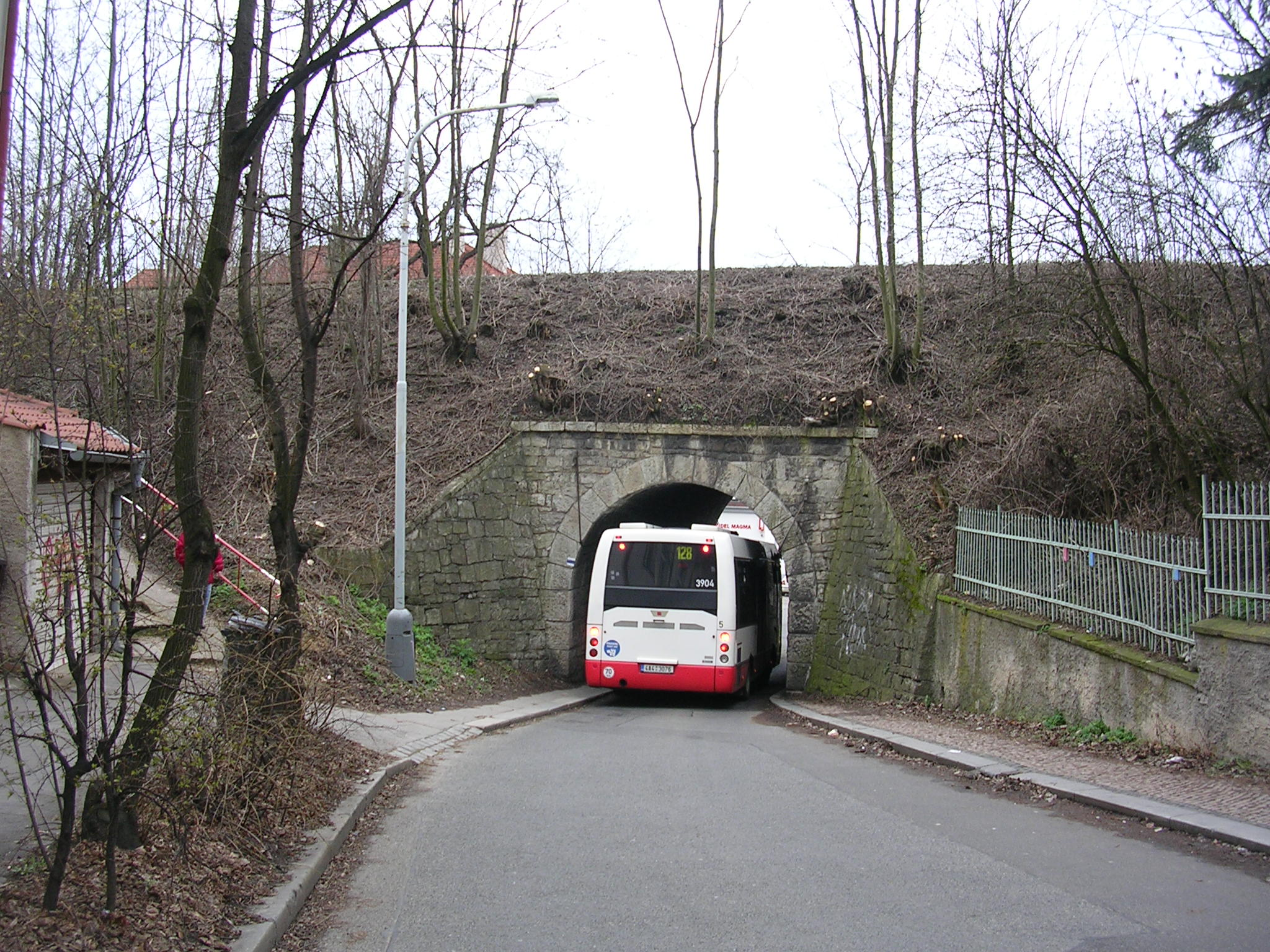 Hlubočepy, Prague, the Czech Republic. Nad Zlíchovem street, a railway bridge